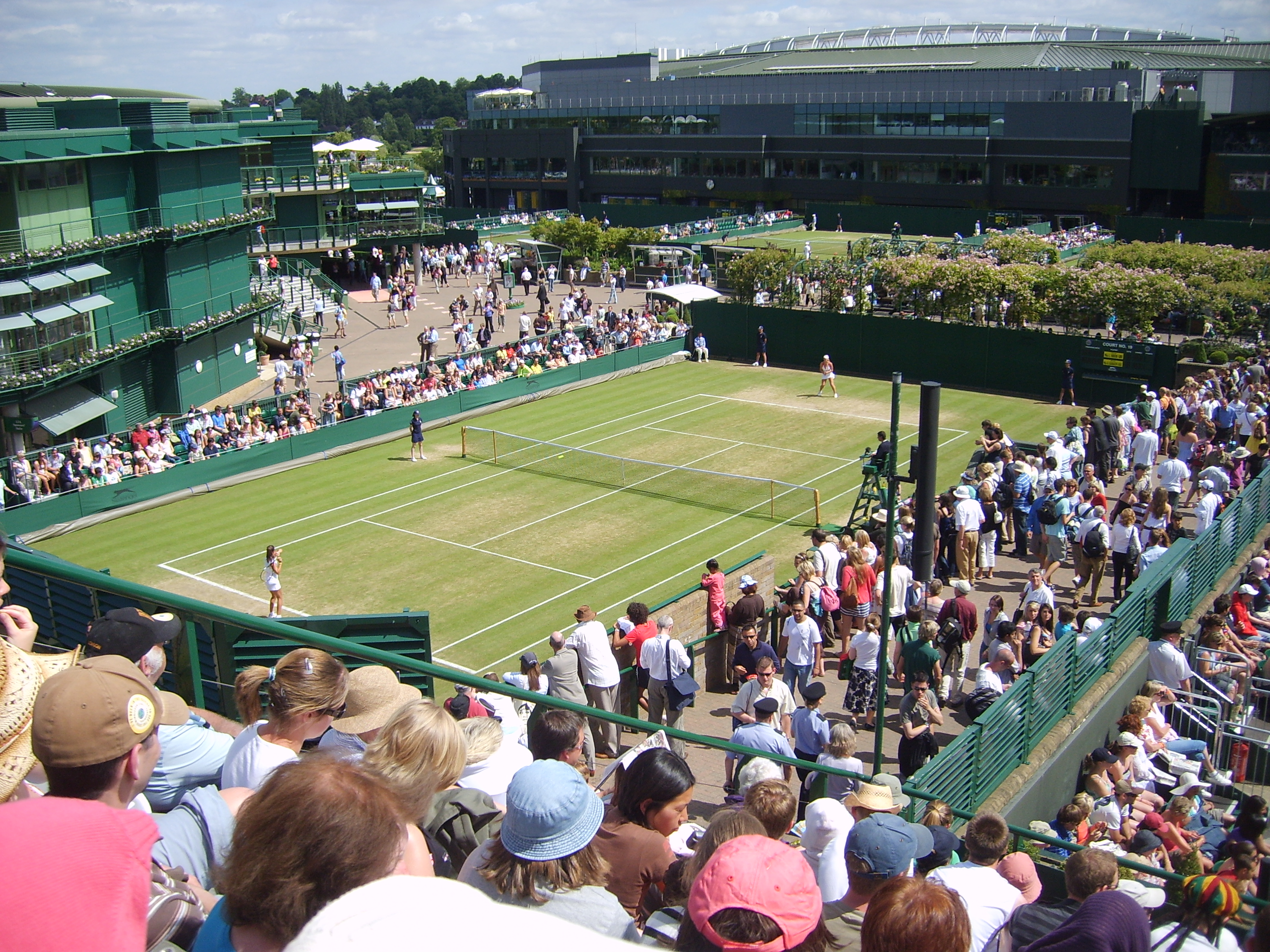 Laura Robson (nearest to the camera) in action on court 19 during the en:2008 Wimbledon Championships. She was playing against Alexa Guarachi in the first round of the Girls' Singles.